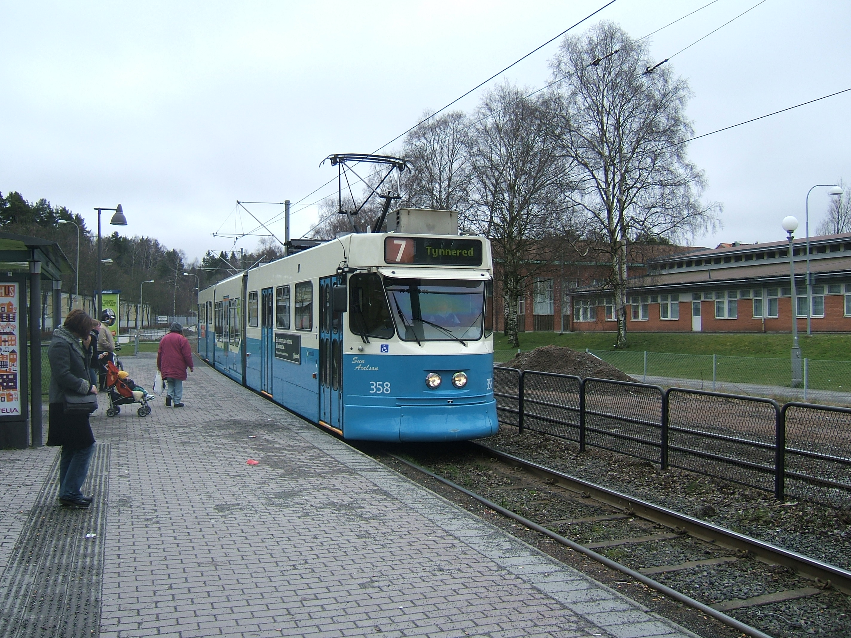 Welcome to Kortedala, Göteborgs most exciting and interesting quarter